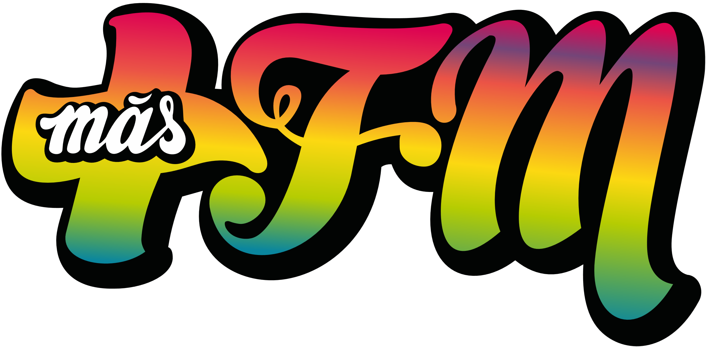 Logo of the new Radio Mas FM from Peru.